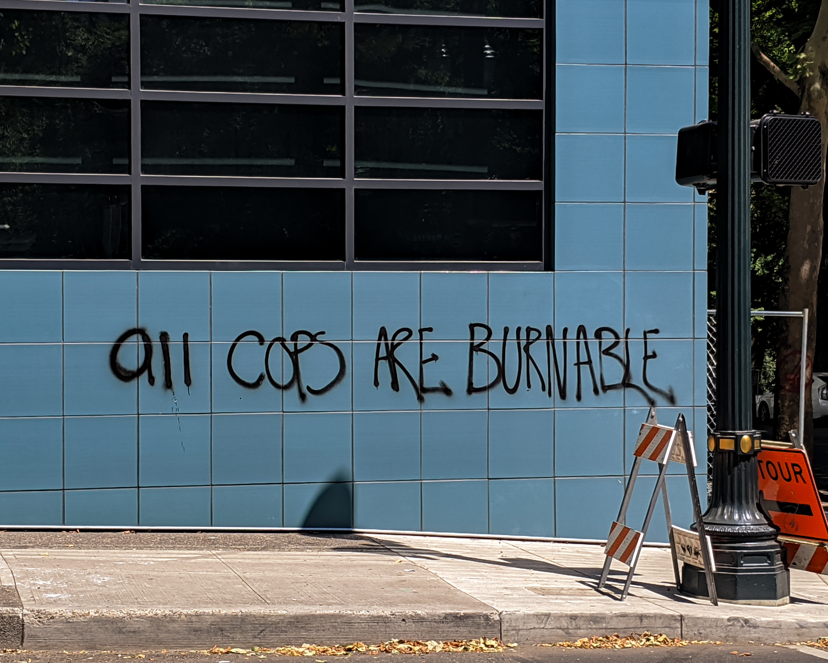 Anti-fascist messaging on the Portland Building during the 2020 George Floyd protests.